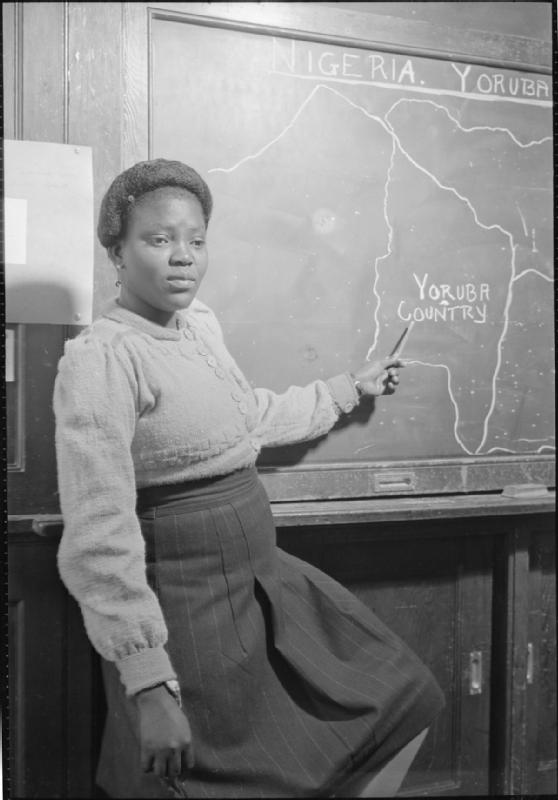 Colonial Students in Great Britain- Students at University of London Institute of Education, London, England, UK, 1946 Miss E A Adebonojo (from Ode, Ijebu country, Yoruba Land, Western Nigeria) points to a map she has drawn on the blackboard showing Yoruba country in Nigeria, during a geography lesson at Marlborough Senior Girls School, Isleworth. According to the original caption, Miss Adebonojo has taken teacher training at the United Missionary College, Ibadan, and has taught at a girls' boarding school. She has won the Nigerian Teacher's Higher Elementary Certificate and is taking a year's general training course.